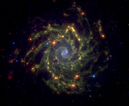 Image of the M74 galaxy in Infrared at 3.6 (blue), 8.0 (green) and 24 (red) µm. The image has been made by myself (Médéric Boquien) from the data retrieved on the SINGS project public archives of the Spitzer Space Telescope (courtesy NASA/JPL-Caltech)